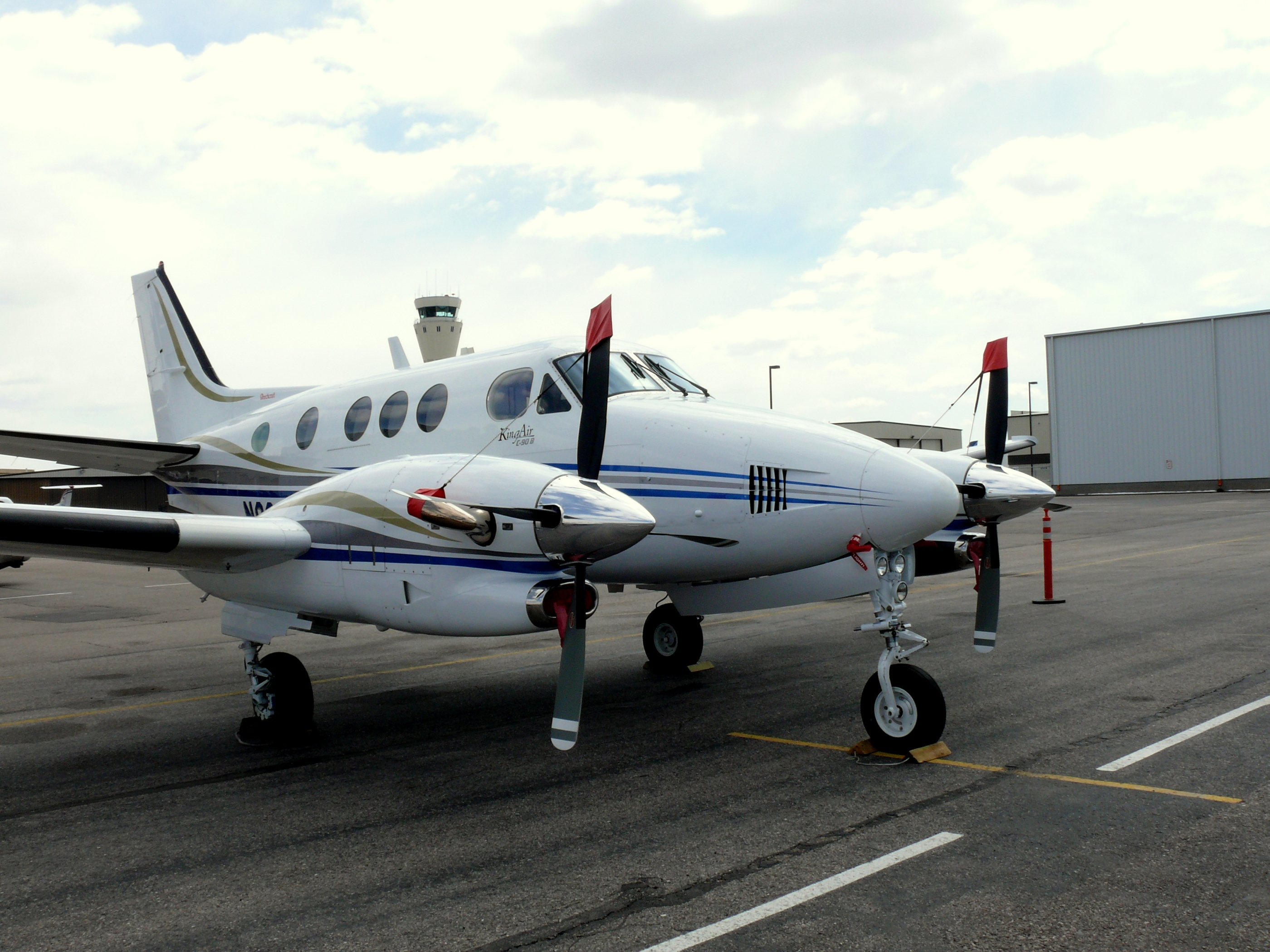 Taken at Centennial Airport in April 2008.